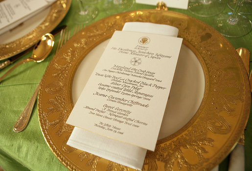 A calligraphy menu for a state dinner at the White House. The Clinton china service is being used.